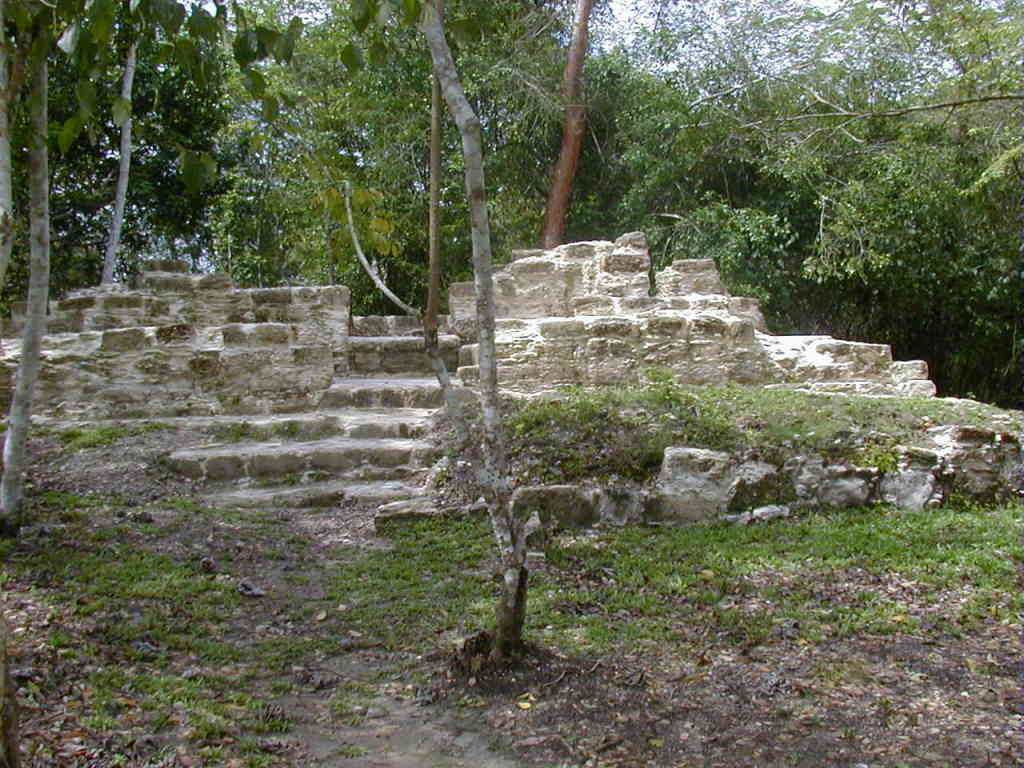 The Maya house site Tzunu'un at the ancient Maya city center El Pilar (Belize/Guatemala). Tzunu'un means "hummingbird" in Mayan.